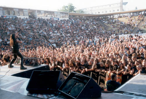 Wisdom playing at the SummerRocks Festival in 2003 as an opening band for Iron Maiden.